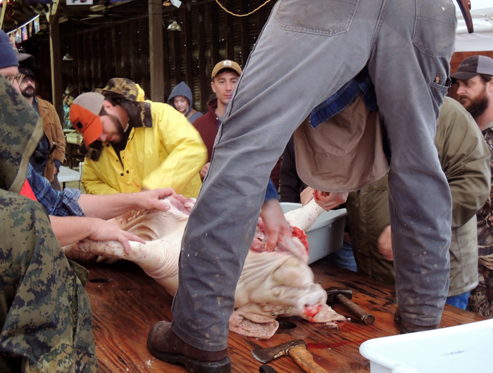 A "boucherie" or communal hog butchering at the 2013 Lundi Gras Boucherie at Lakeview Park and Beach north of Eunice, Louisiana. The boucherie is a traditional event in Cajun culture and cuisine.